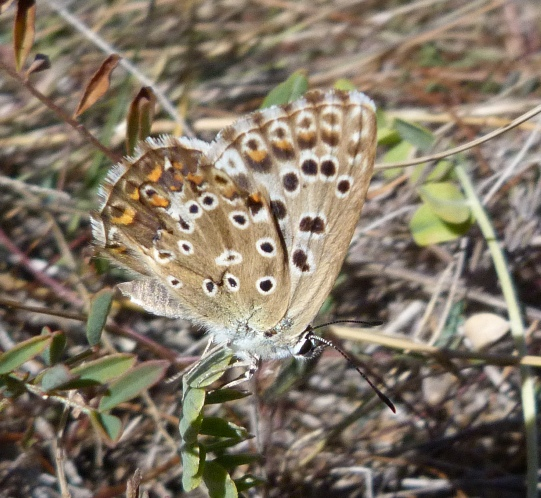 Female near El Monestir d'Avellanes, Lleida, Catalonia.